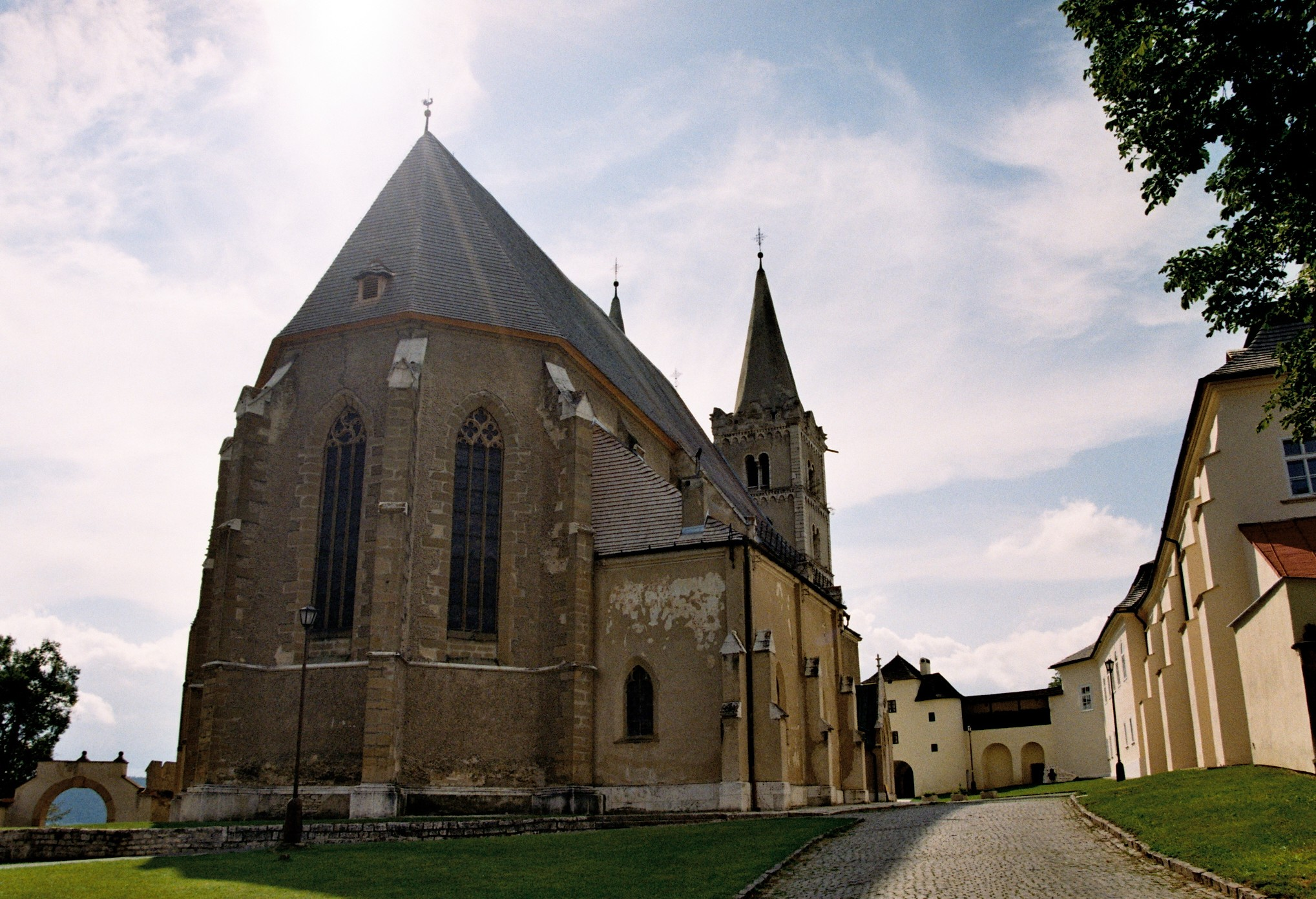 Spišská Kapitula - Zipser Kapitel - Szepeshely This medium shows the protected monument with the number 704-782/0 in the Slovak Republic.